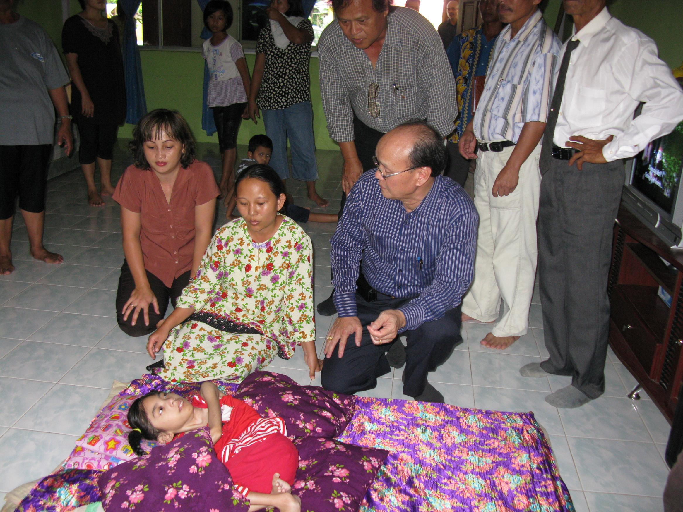 Visit to Longhouse in Marudi, Sarawak